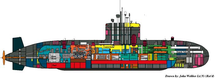 Drawing I drew in July 2006